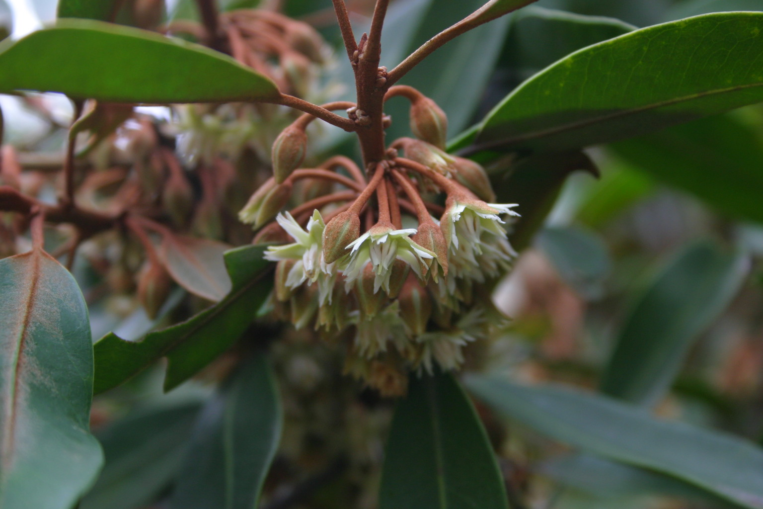 Mimusops zeyheri Sond. flowers - own image